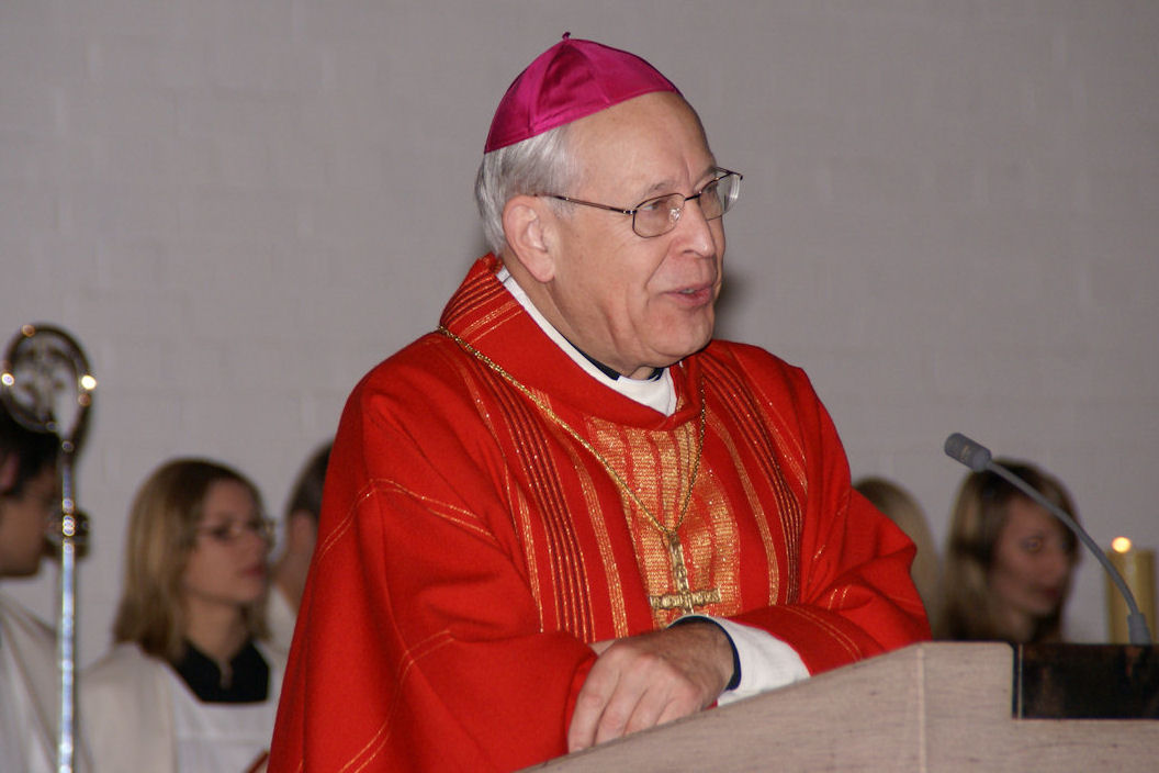 Bishop Rainer Klug, Freiburg, Germany